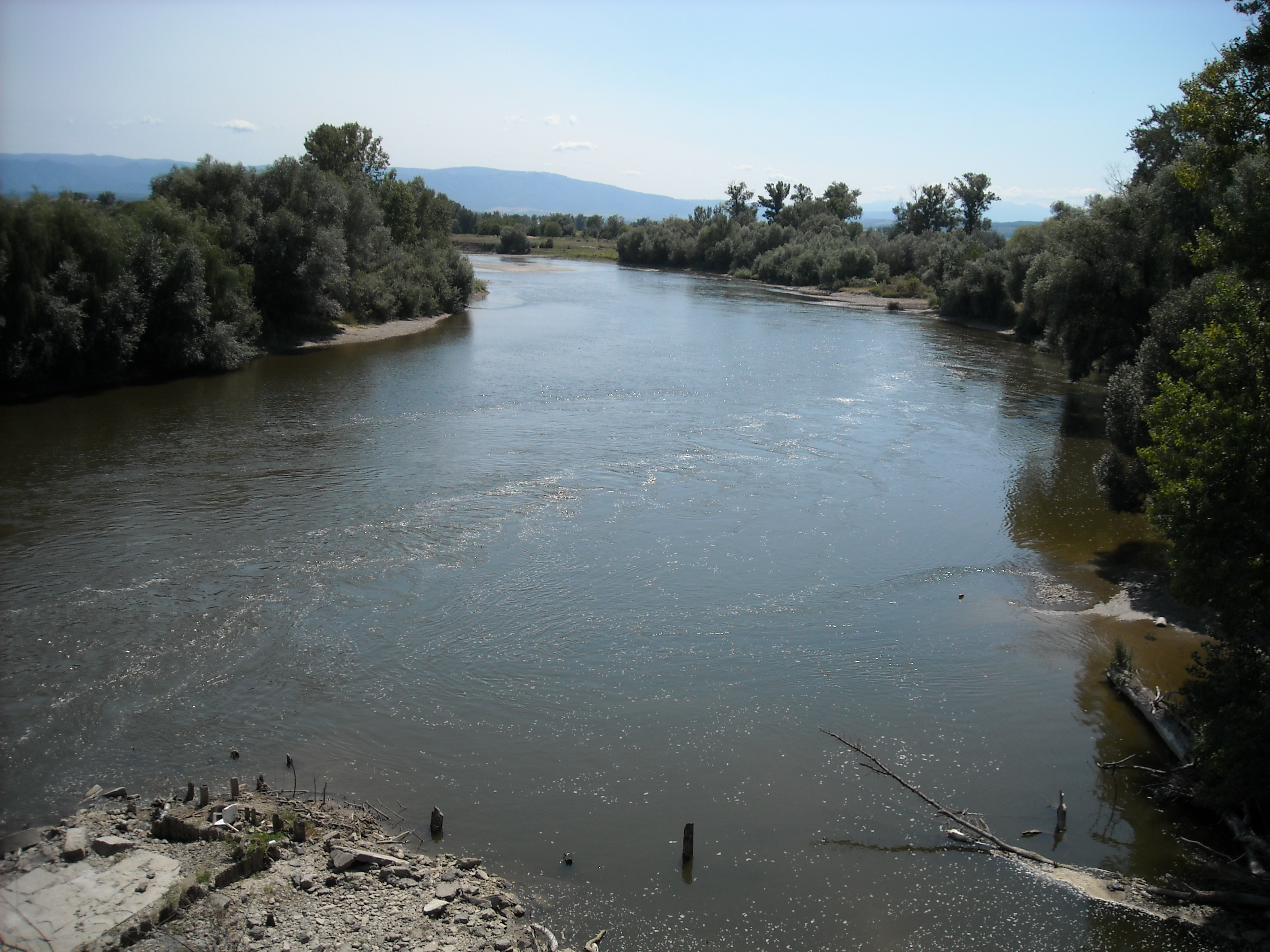 river Mureş at Gelmar (Hunedoara County, Romania)